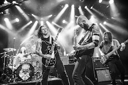 Photo of Baroness performing at Commodore Ballroom in Vancouver, Canada.